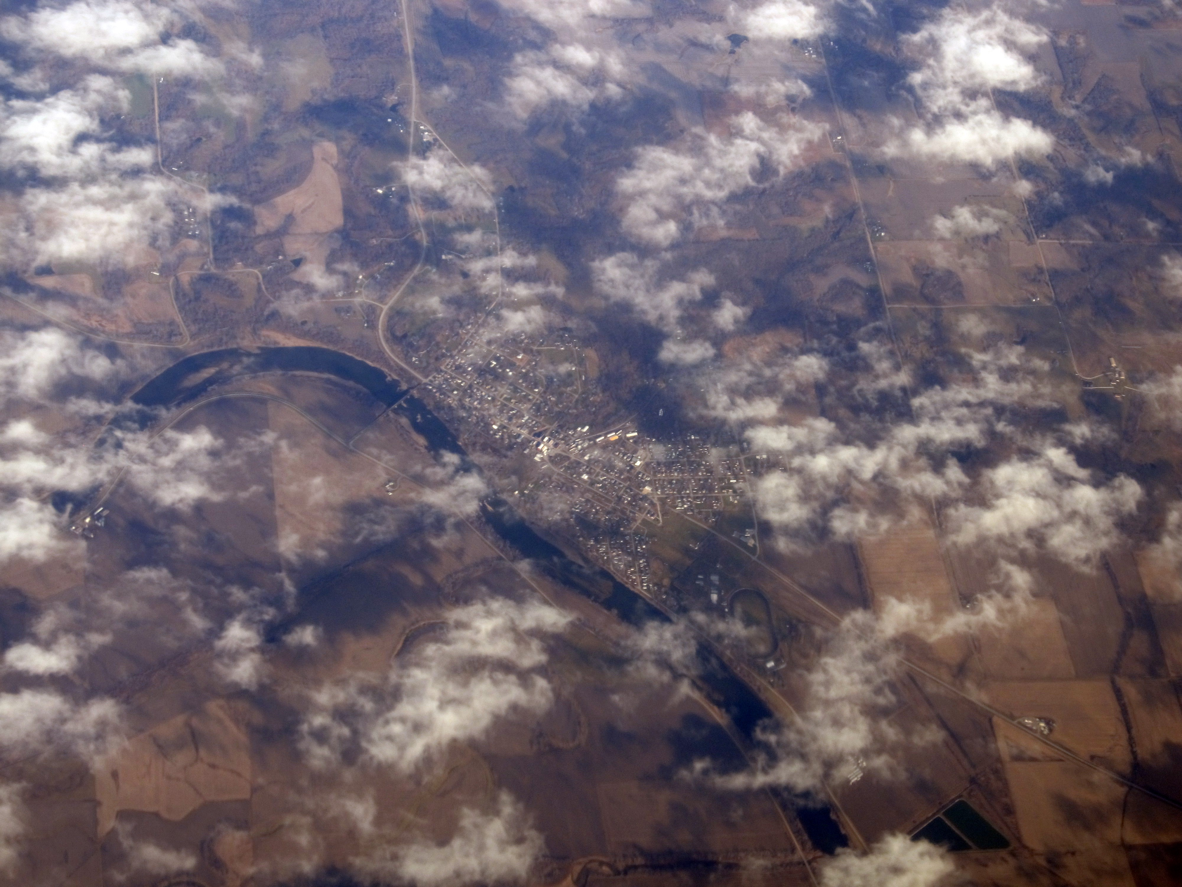 Eldon is a city in Wapello County, Iowa, United States. The population was 927 at the 2010 census. Eldon is the site of the small Carpenter Gothic style house that has come to be known as the American Gothic House because Grant Wood used it for the background in his famous 1930 painting American Gothic.